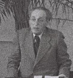 Yehuda Even Shmuel delivering a eulogy for Berl Katzenelson before the ELECTED ASSEMBLY IN SESSION IN JERUSALEM. דיון באולם המליאה של אספת הנבחרים הרביעית בירושלים.